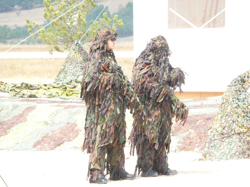 A FOS (Forţele pentru Operaţii Speciale: Special Operations Forces) sniper team during the "JACKAL STONE 09" military exercise.